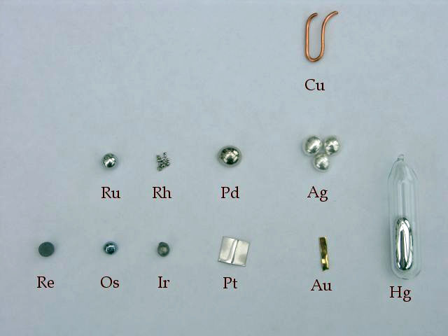 Assortment of precious metal elements.